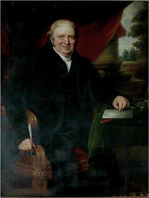 Portrait of Rev William Winterbotham (1763 - 1829), Oil paint, 50 x 40 inches (127cm x 102cm)